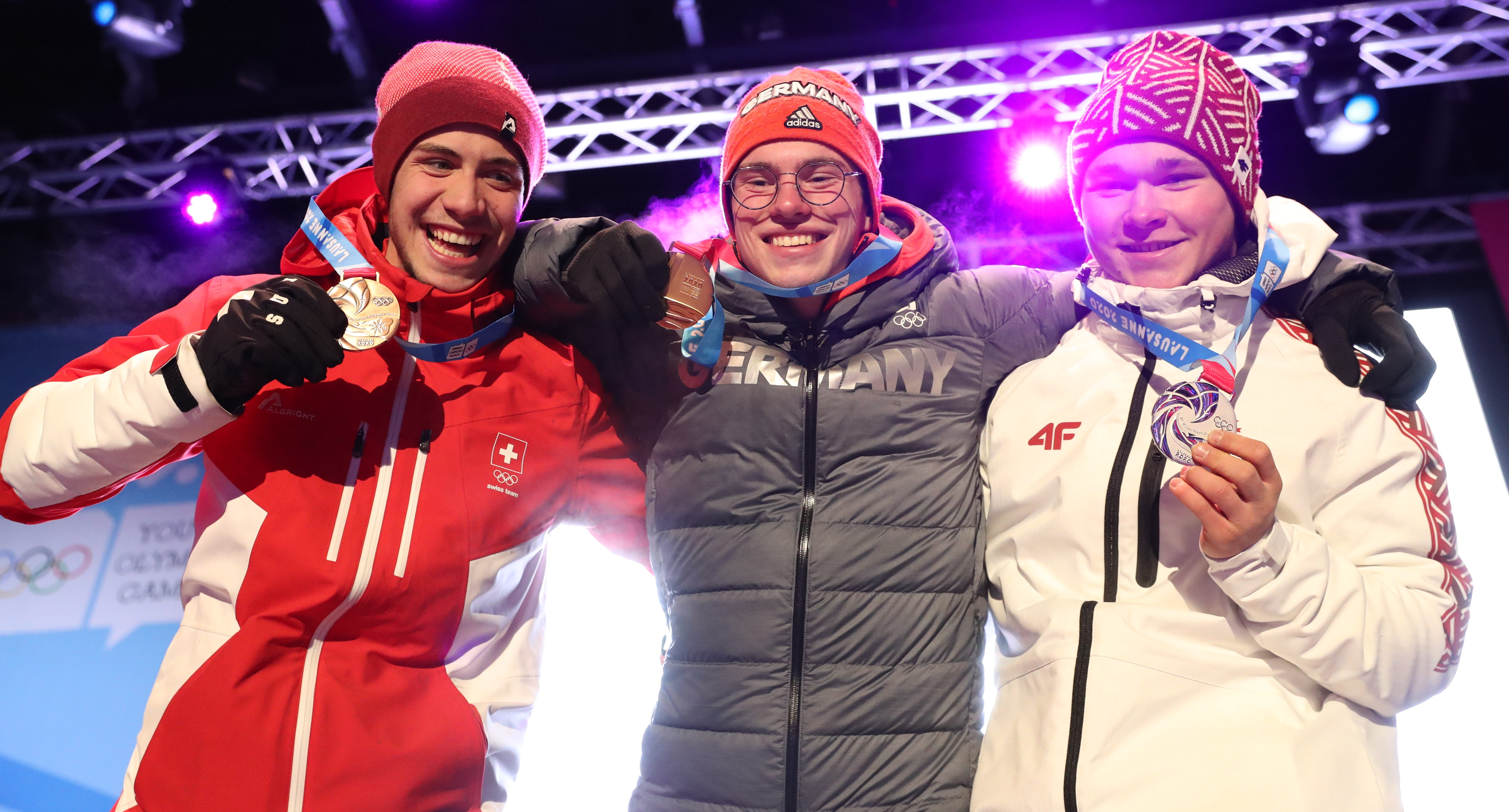 Medal Ceremony Day 11 in St. Moritz, 2020 Winter Youth Olympics in Lausanne